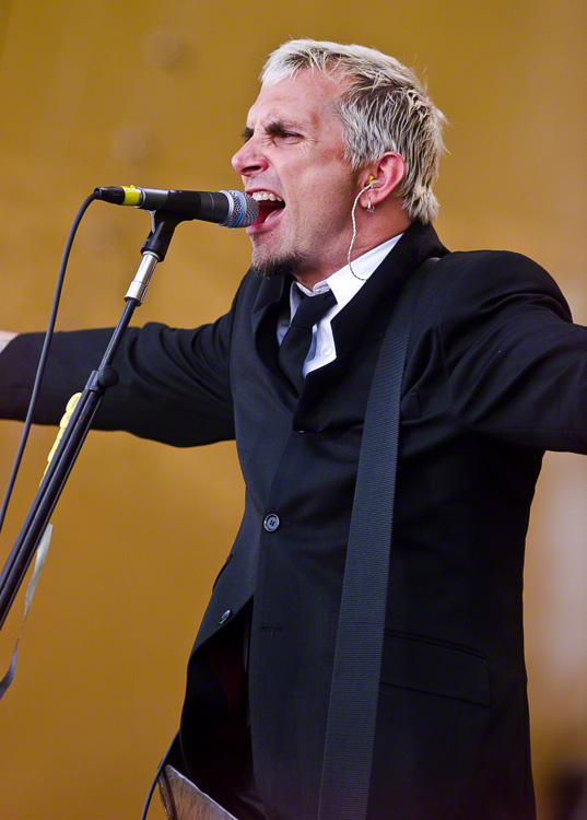 1999 Arthur Paul "Art" Alexakis performing with Everclear